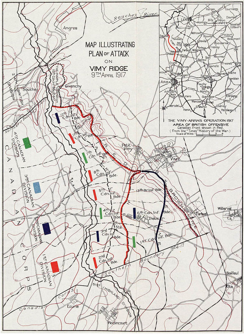 Disposition of Canadian Corps at Zero Hour, 9th April, 1917 Scale [1:54 000]